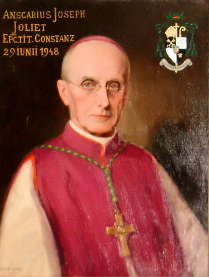 Mgr. Joliet